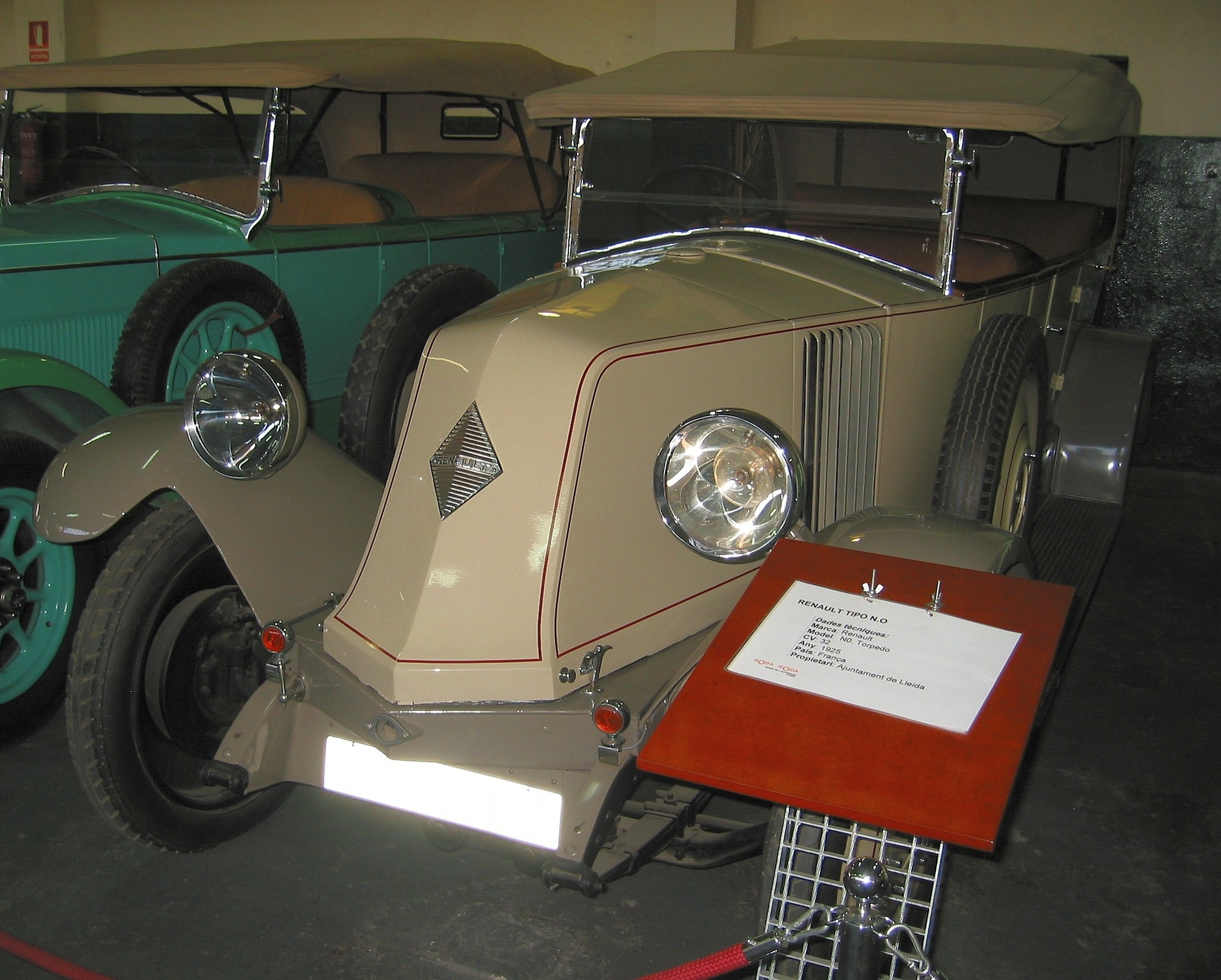 Renault Type NO Torpedo 1924-1925